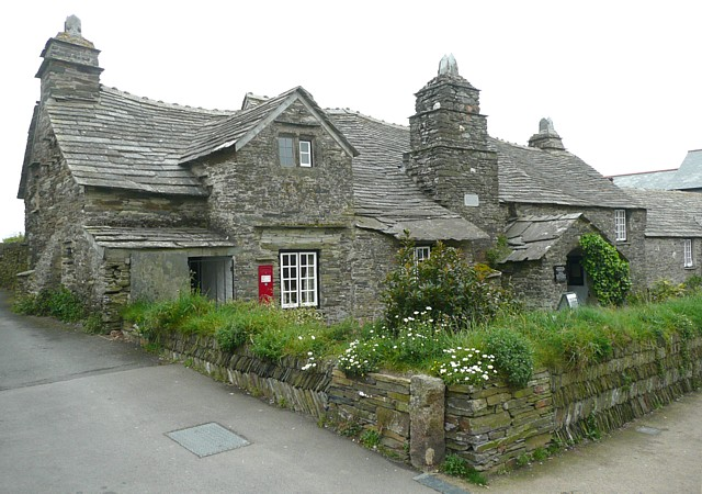 The Old Post Office, Tintagel It is a rare example of a 14C manor house. It was a post office for a relatively short time in the 19C. The letter box is not the original one, nor is it still in use.